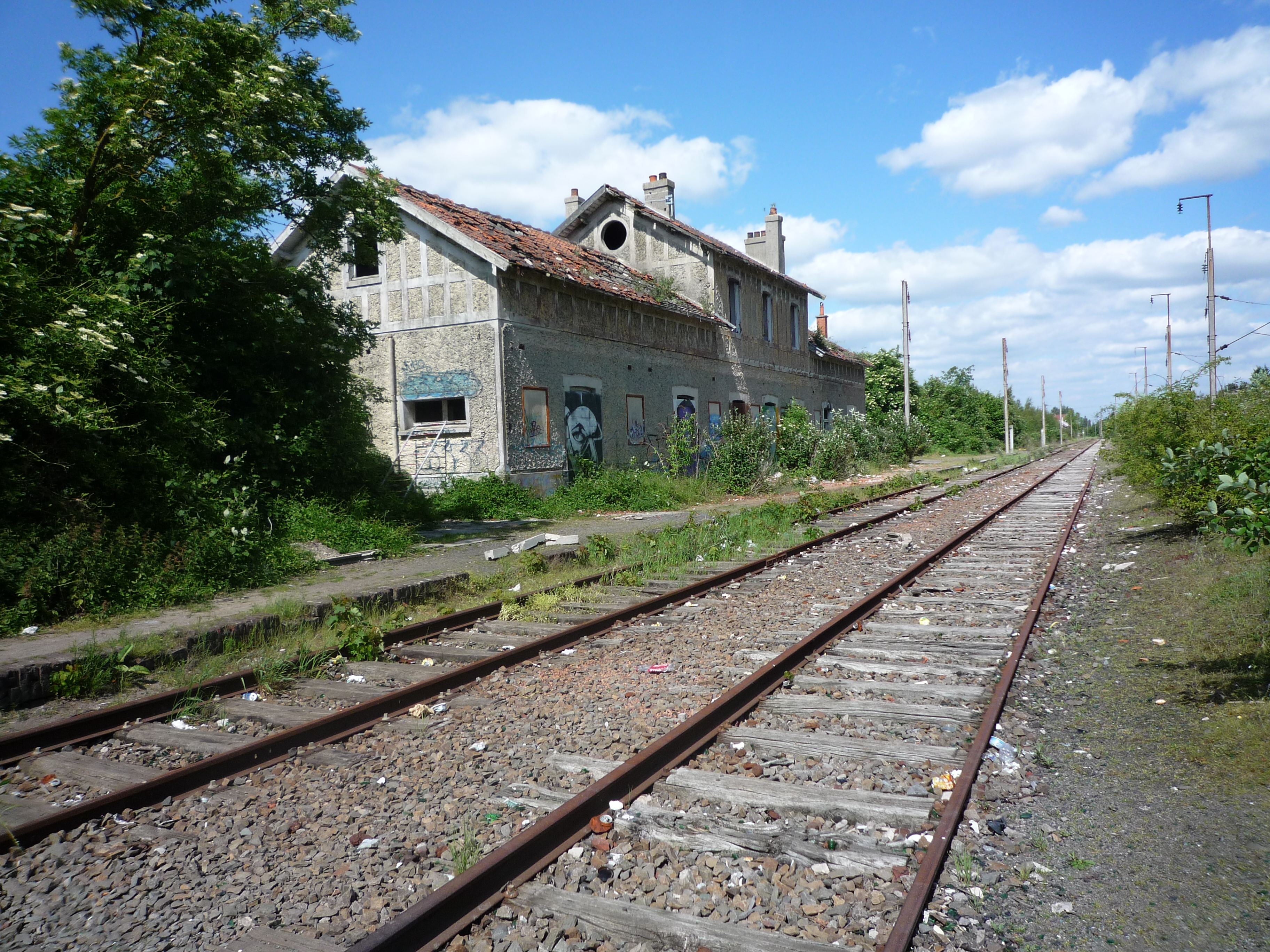 Former railstation at Aniche, France.